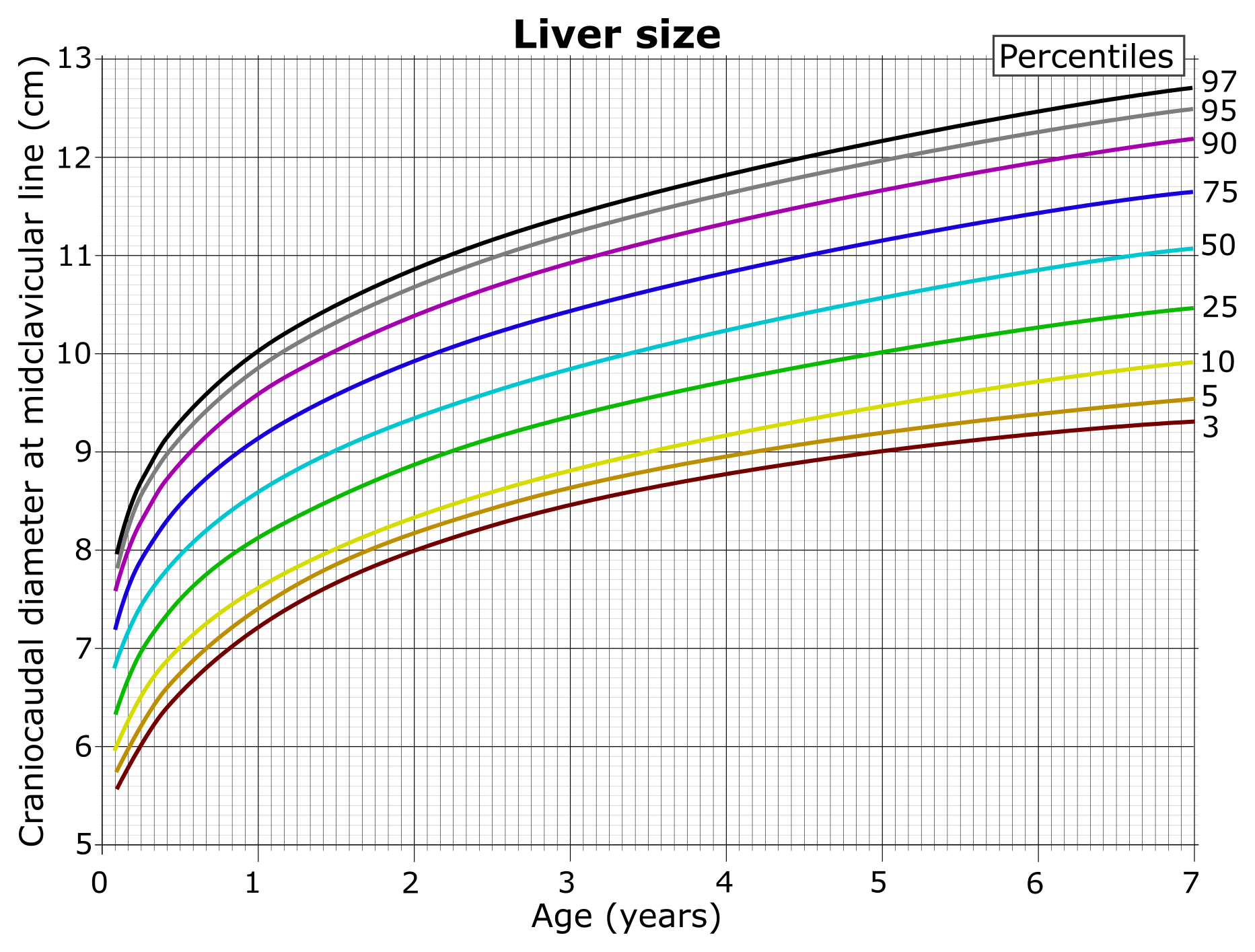 Normal craniocaudal diameter of the posterior surface of the right lobe of the liver at the midclavicular line.